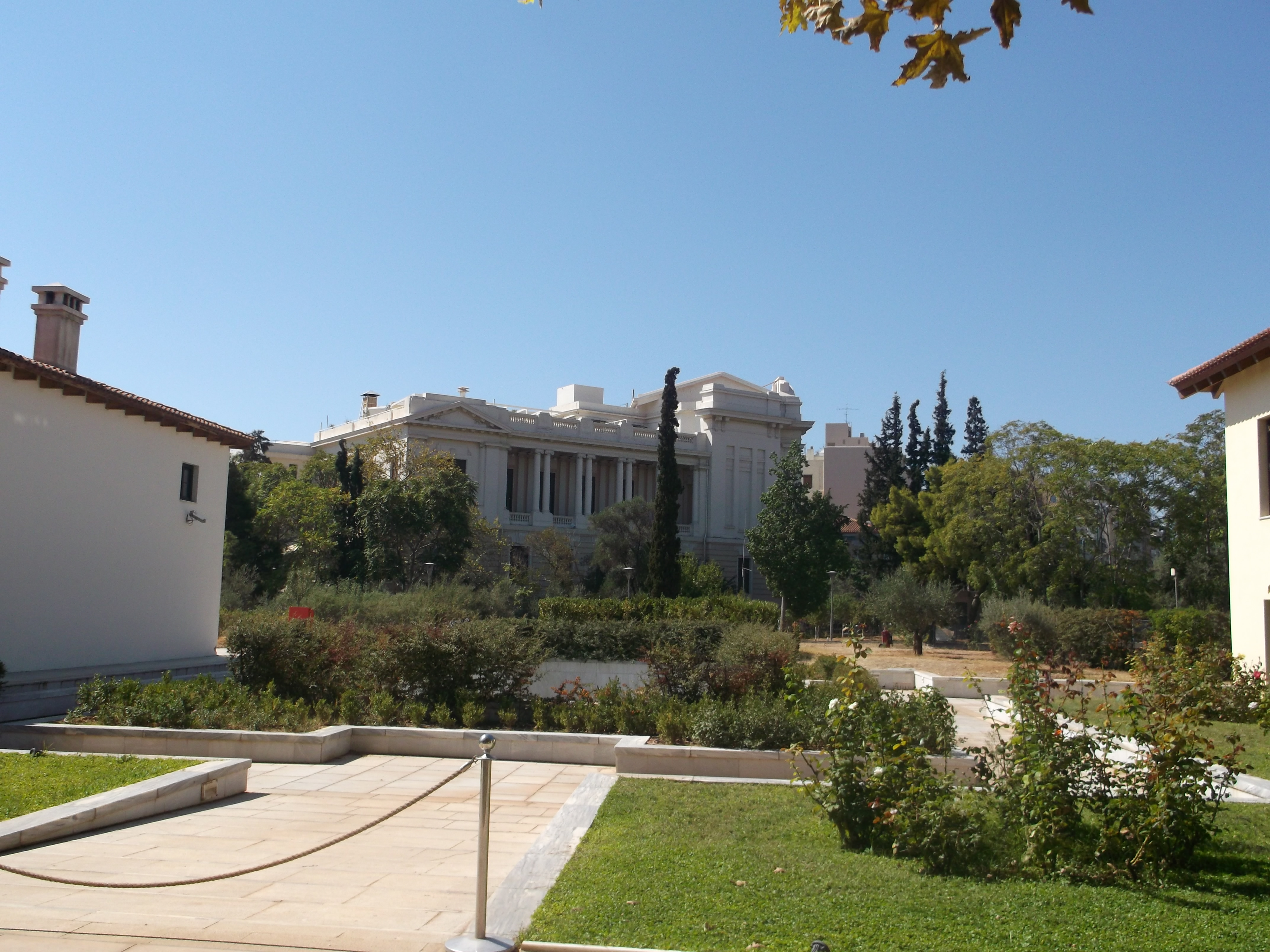 Saroglion Athens - View from Byzantine museum